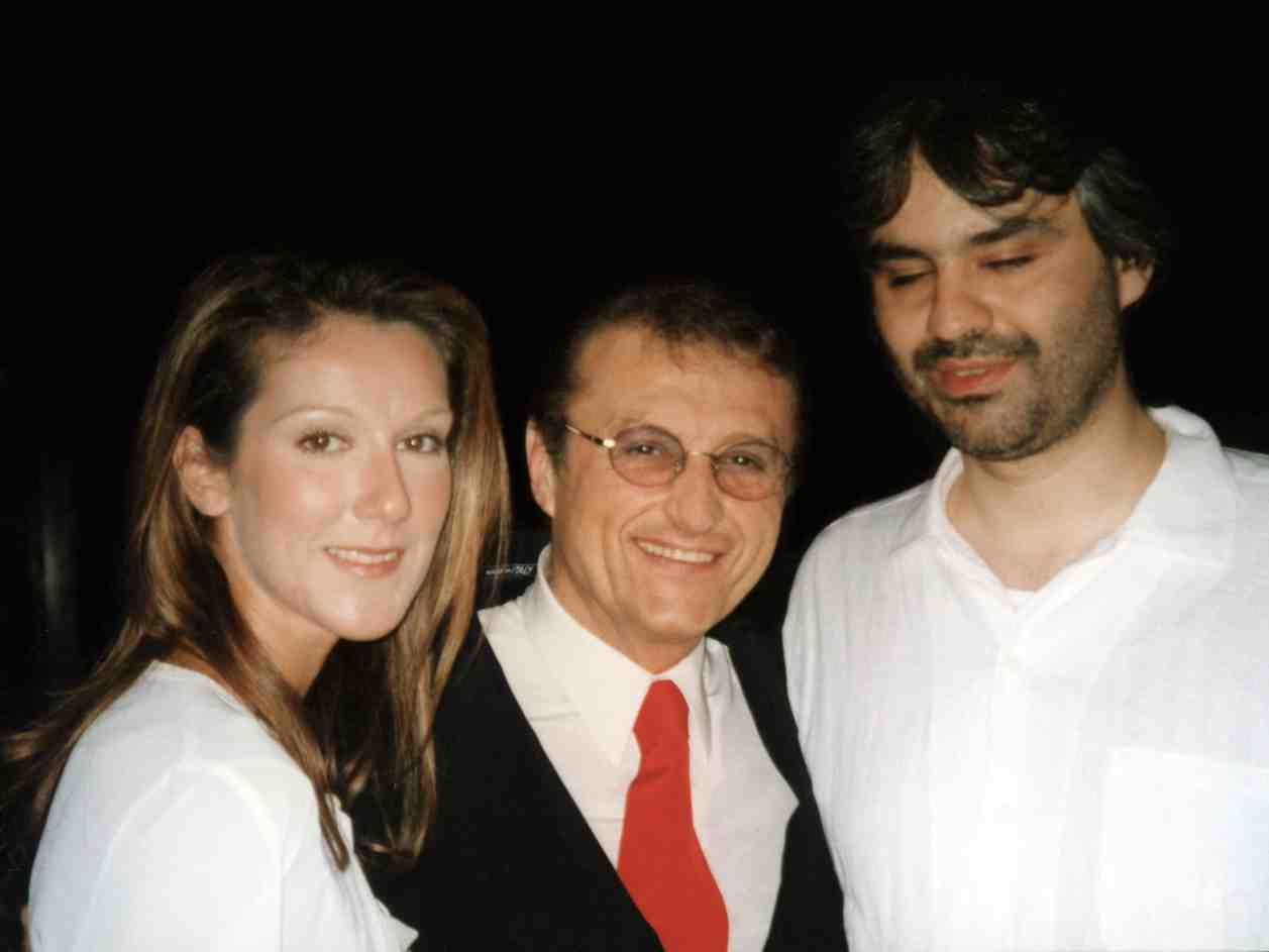 Image transferred from Wikipedia and released in the public domain for respective article on wiki on Italian singer Tony Renis. To be used in translated entry on wiki.